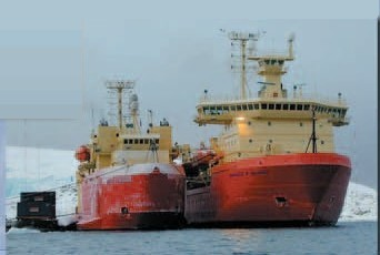 NSF Research Vessels Laurence M. Gould and Nathaniel B. Palmer - showing their relative size